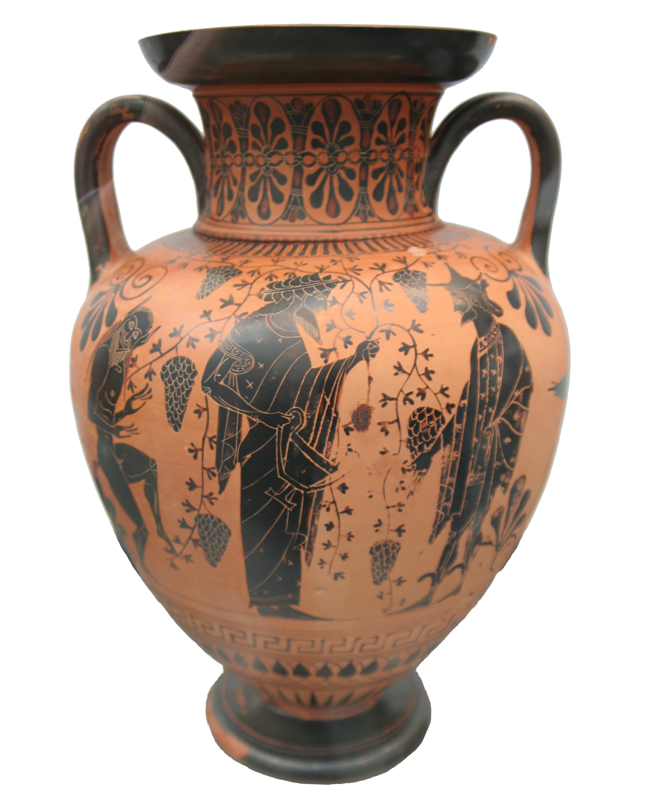 Photographed by myself in Antikensammlung Munich, Germany. Greek vase from Attika 550 - 520 b.C. Dionysos talking with Hermes and a dancing silenus on the left side.